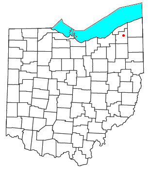 Locator map of the unincorporated community of East Claridon in Geauga County, Ohio, United States.